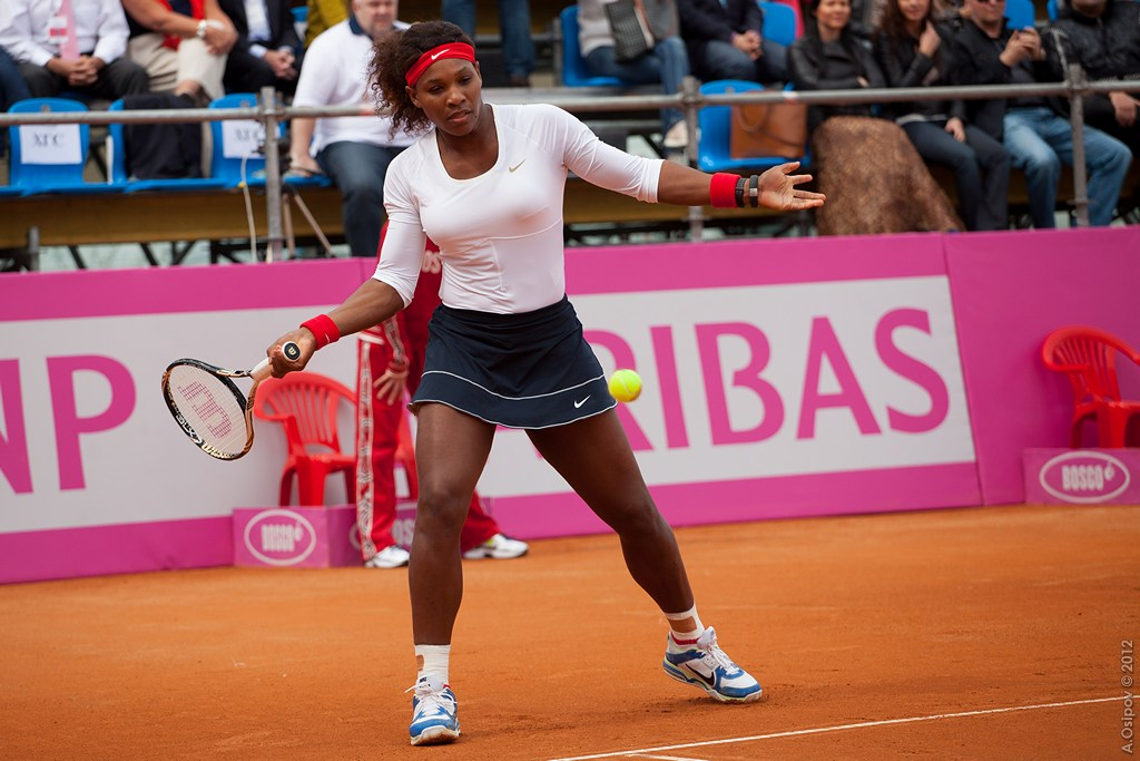 Williams hitting a forehand